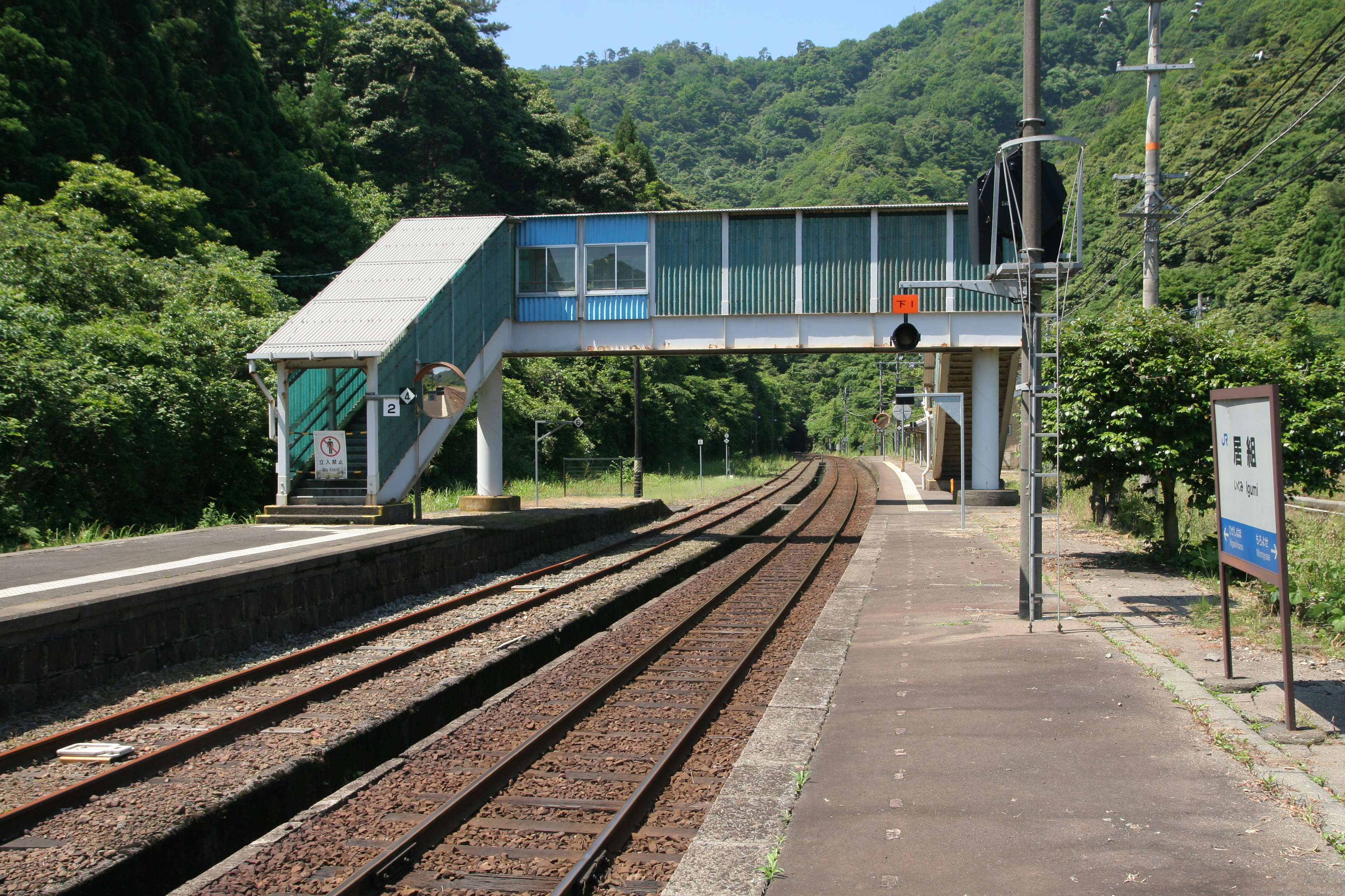 JR West Igumi Station, viewed towards Tottori. Shot after the closure of platform 2 and the bridge